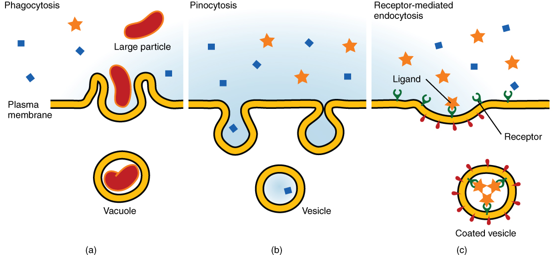 Caption: Endocytosis is a form of active transport in which a cell envelopes extracellular materials using its cell membrane. (a) In phagocytosis, which is relatively nonselective, the cell takes in a large particle. (b) In pinocytosis, the cell takes in small particles in fluid. (c) In contrast, receptor-mediated endocytosis is quite selective. When external receptors bind a specific ligand, the cell responds by endocytosing the ligand. URL: Version 8.25 from the Textbook OpenStax Anatomy and Physiology Published May 18, 2016